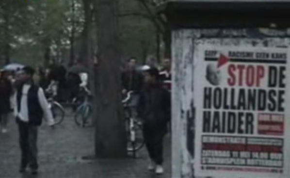 G.W. Burgerplein, Rotterdam on 6 May 2002 after the murder of Pim Fortuyn. Featuring poster of the International Socialists with the slogan Stop the Dutch Haider.